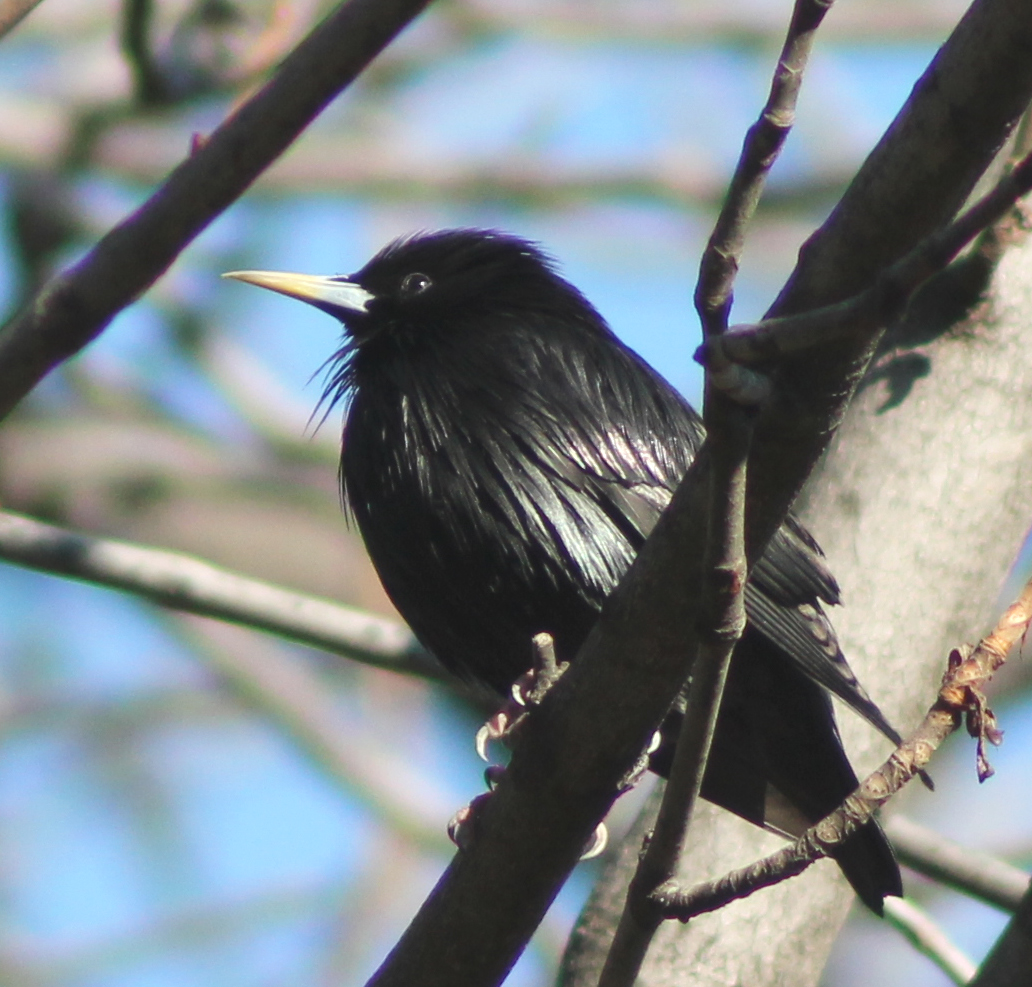 A Spotless Starling (Sturnus unicolor) in Retiro Park in Madrid (Spain).